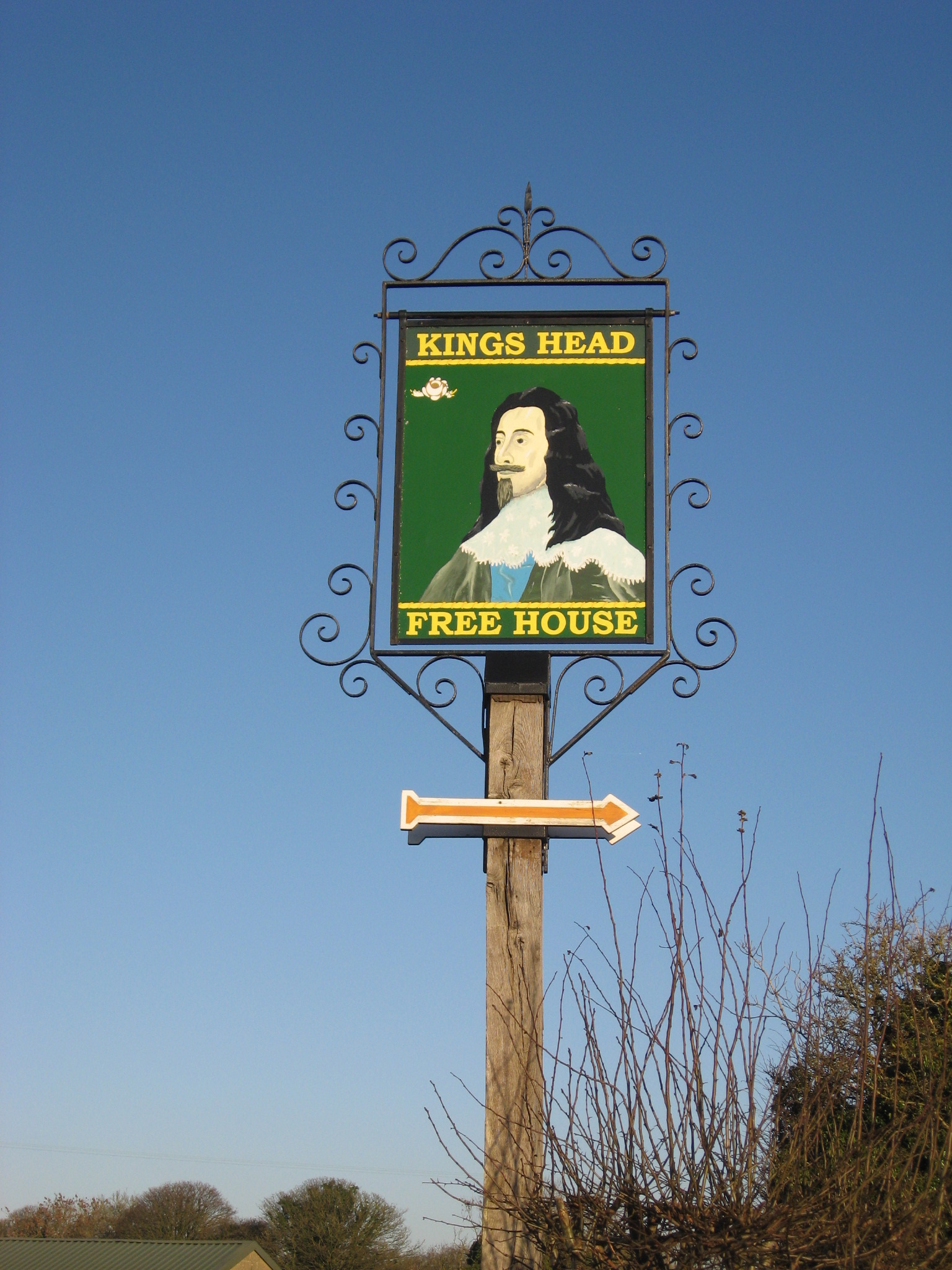 Stand-alone country pub sign, France Lynch, Gloucestershire